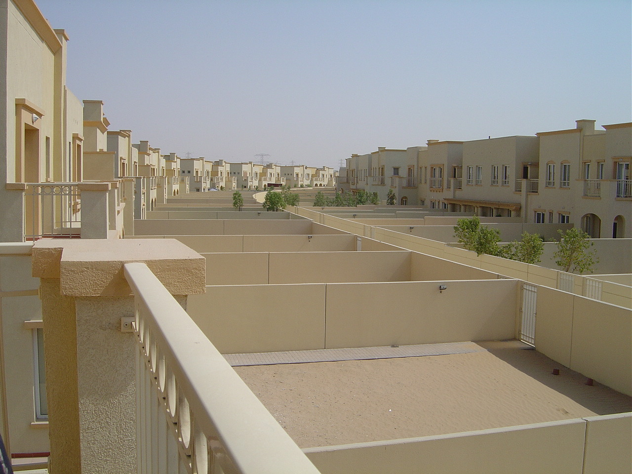 Mofsound, personal image